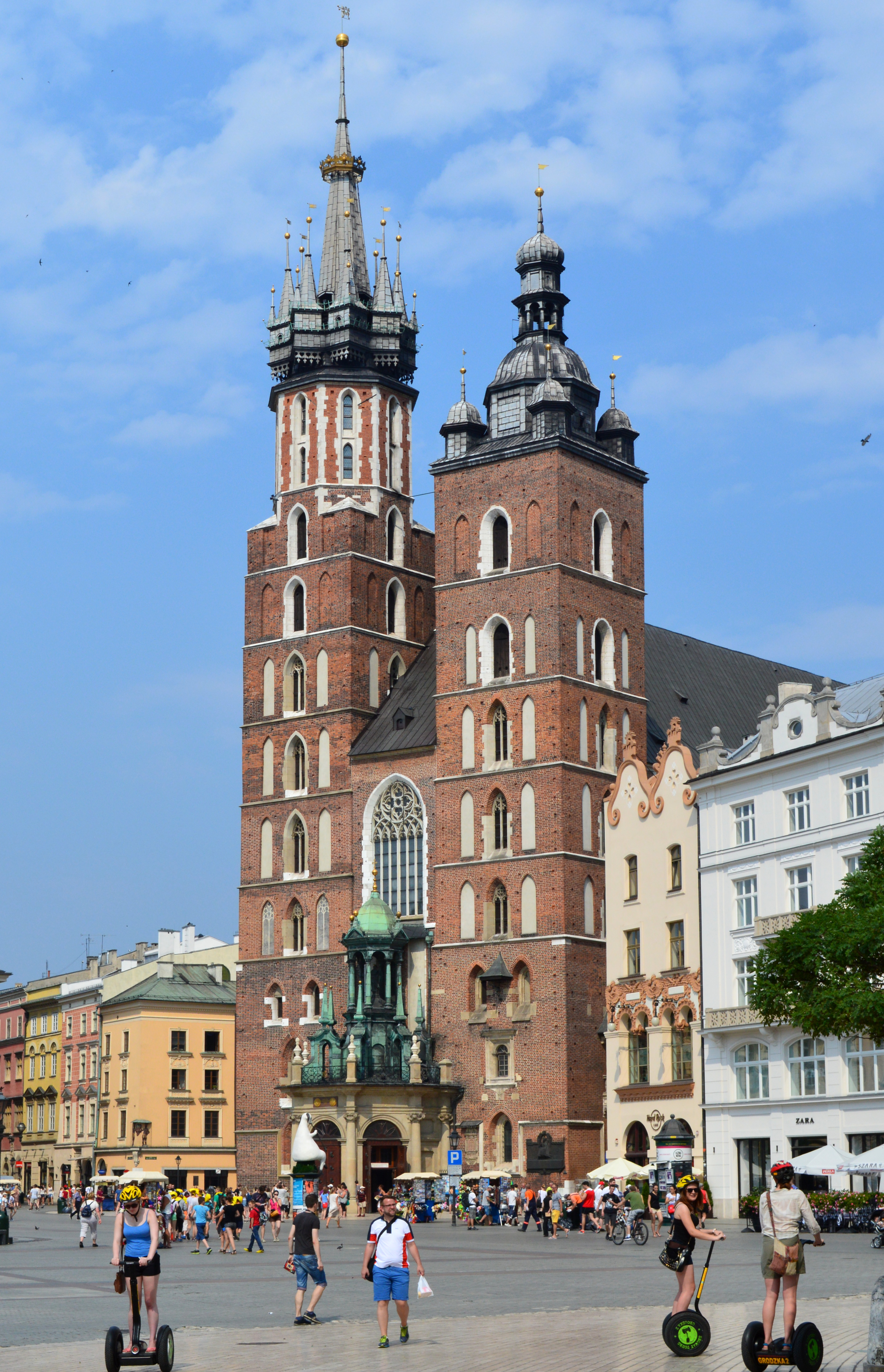 Saint Mary's Basilica (Kościół Mariacki), is a Brick Gothic church re-built in the fourteenth century (originally built in the early thirteenth century), adjacent to the Main Market Square in Cracow (Kraków), Poland. The Scotch Mist Gallery contains many photographs of historic buildings, monuments and memorials of Poland.